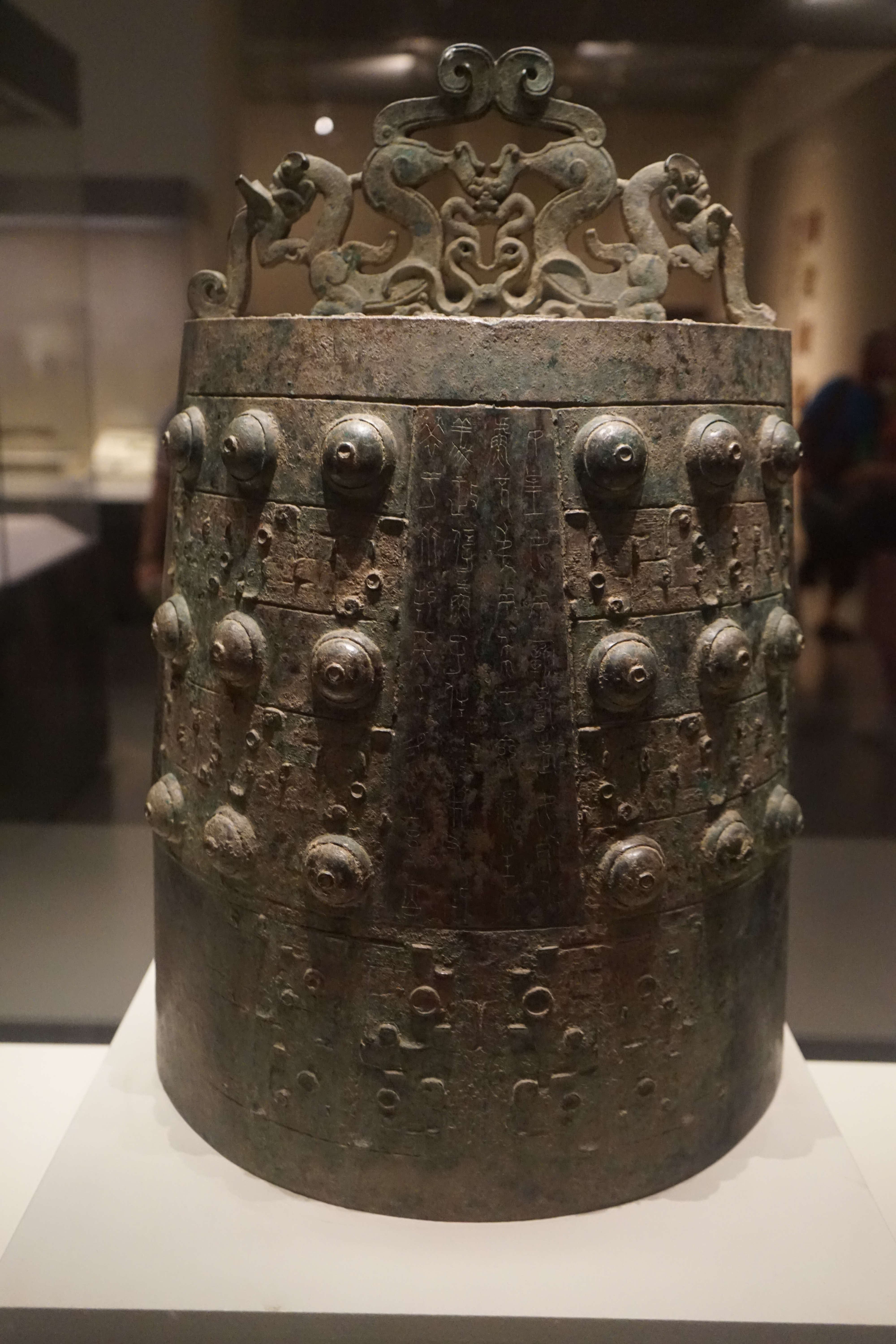 "Ling" Bronze Bo (percution instrument). Spring and Autumn, Qi state. Reportedly unearthed from Ronghe, Shanxi Province, 1870. The inscription on this Bo records that Ling, grandson of a Qi state senior official, was granted land and commoners by the ruler of Qi and therefore commissioned this object.